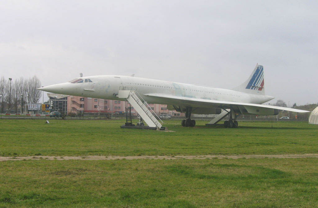 Concorde at Orly airport